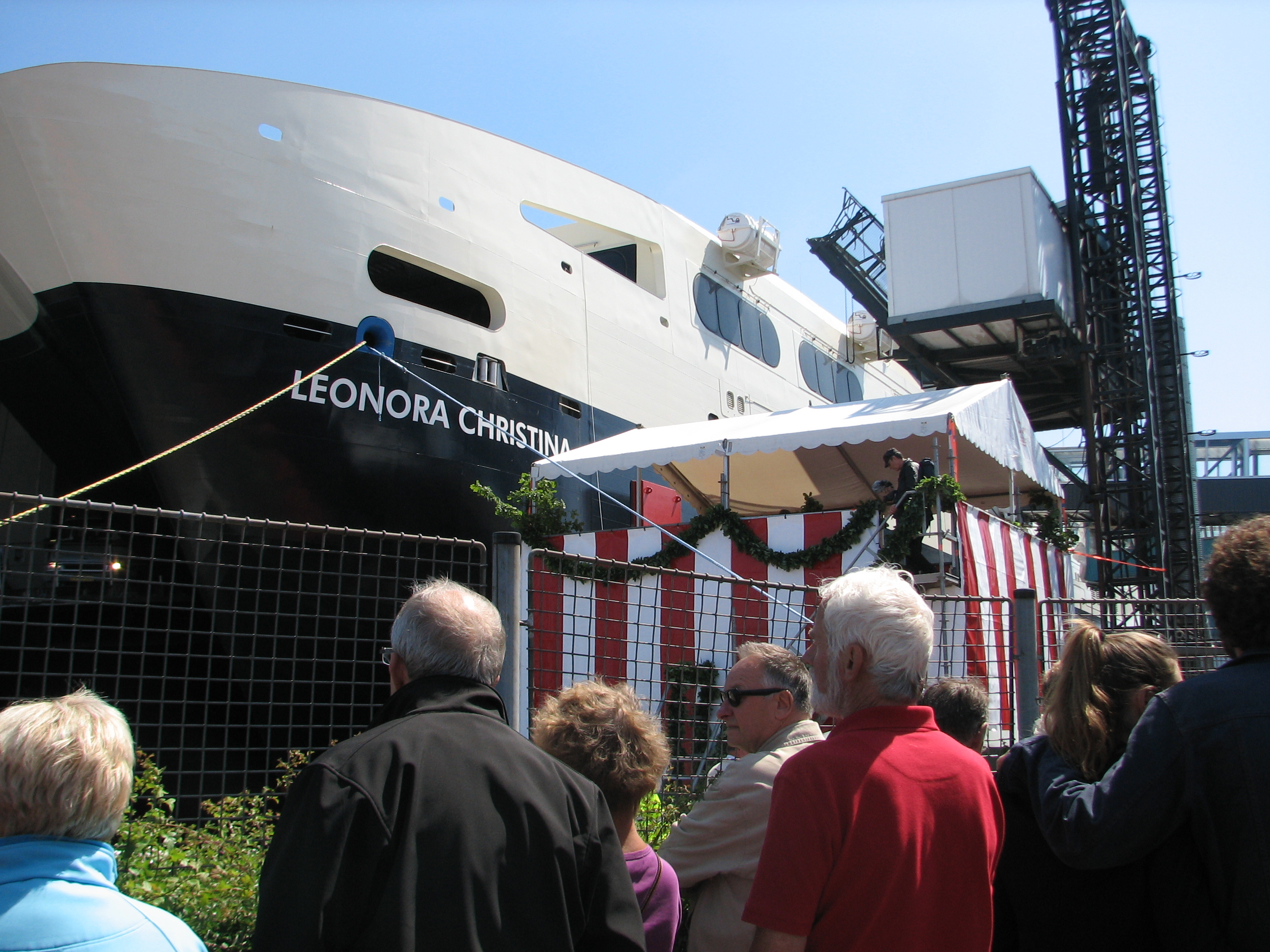 Leonora Christina in the harbour of Rønne